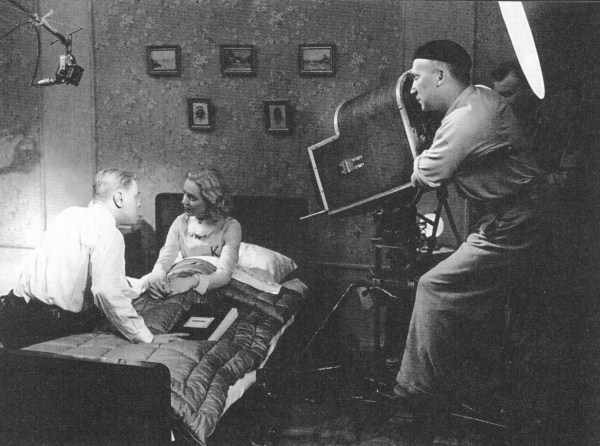 Valentin Vaala directs actress Ansa Ikonen for the movie Vaimoke. Behind the camera Theodor Luts and Sulo Tammilehto.